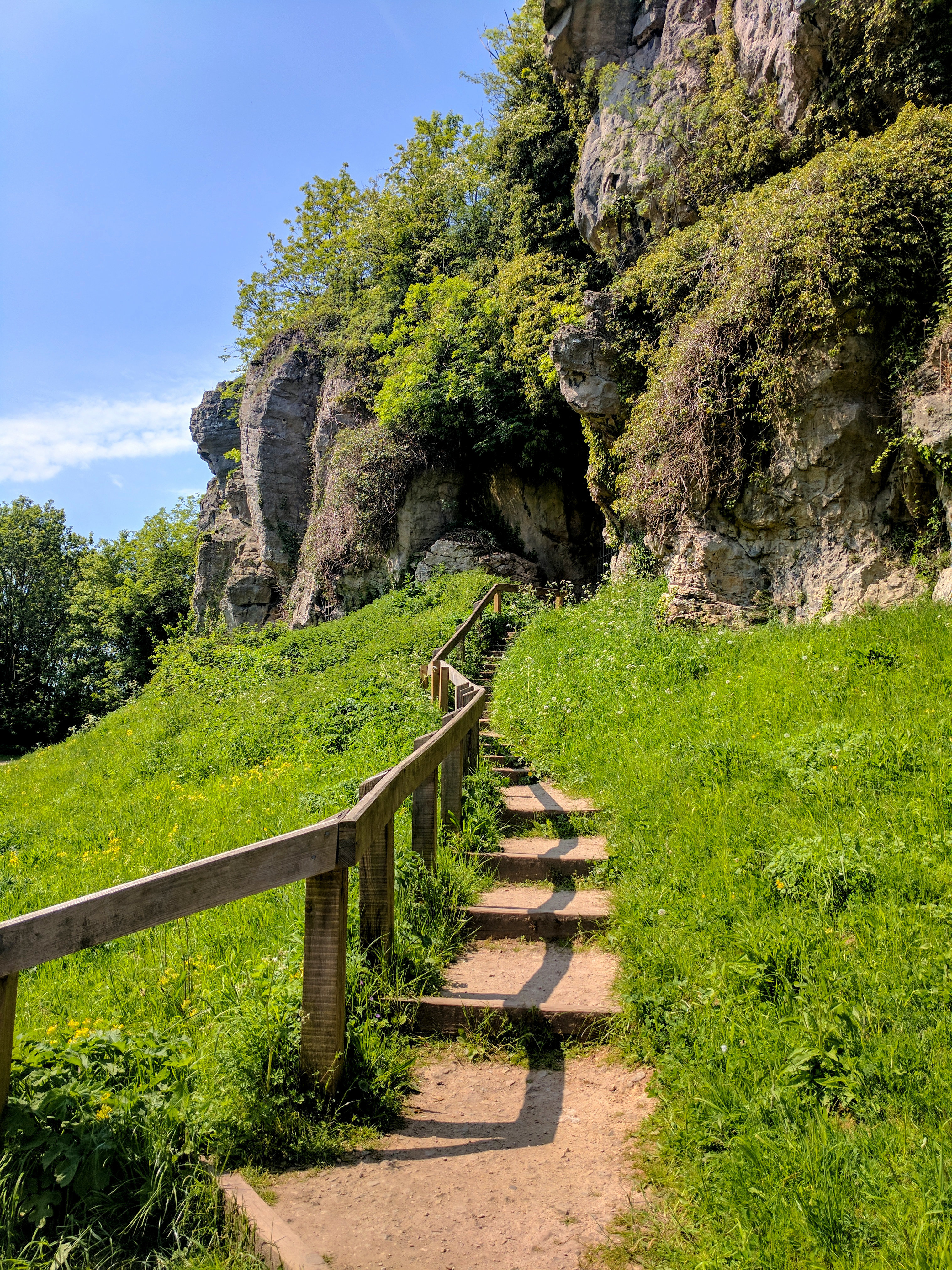 Pin Hole Cave, Creswell Crags, Palaeolithic and later prehistoric sites at Creswell Gorge, including Boat House Cave and Church Hole Cave Wikidata has entry Q17642924 with data related to this item.